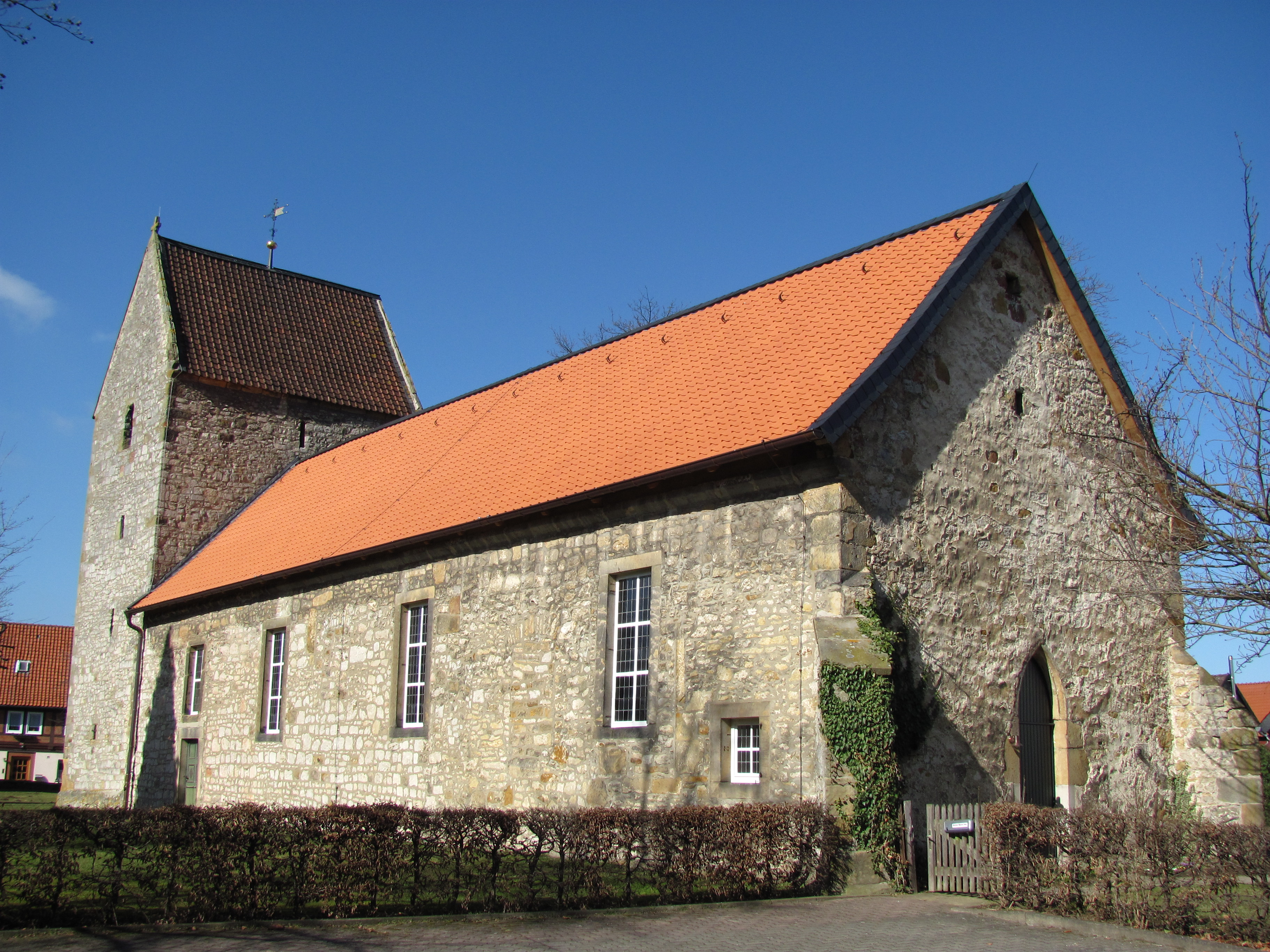 Protestant Church, Holle-Sottrum, Lower Saxony, Germany.